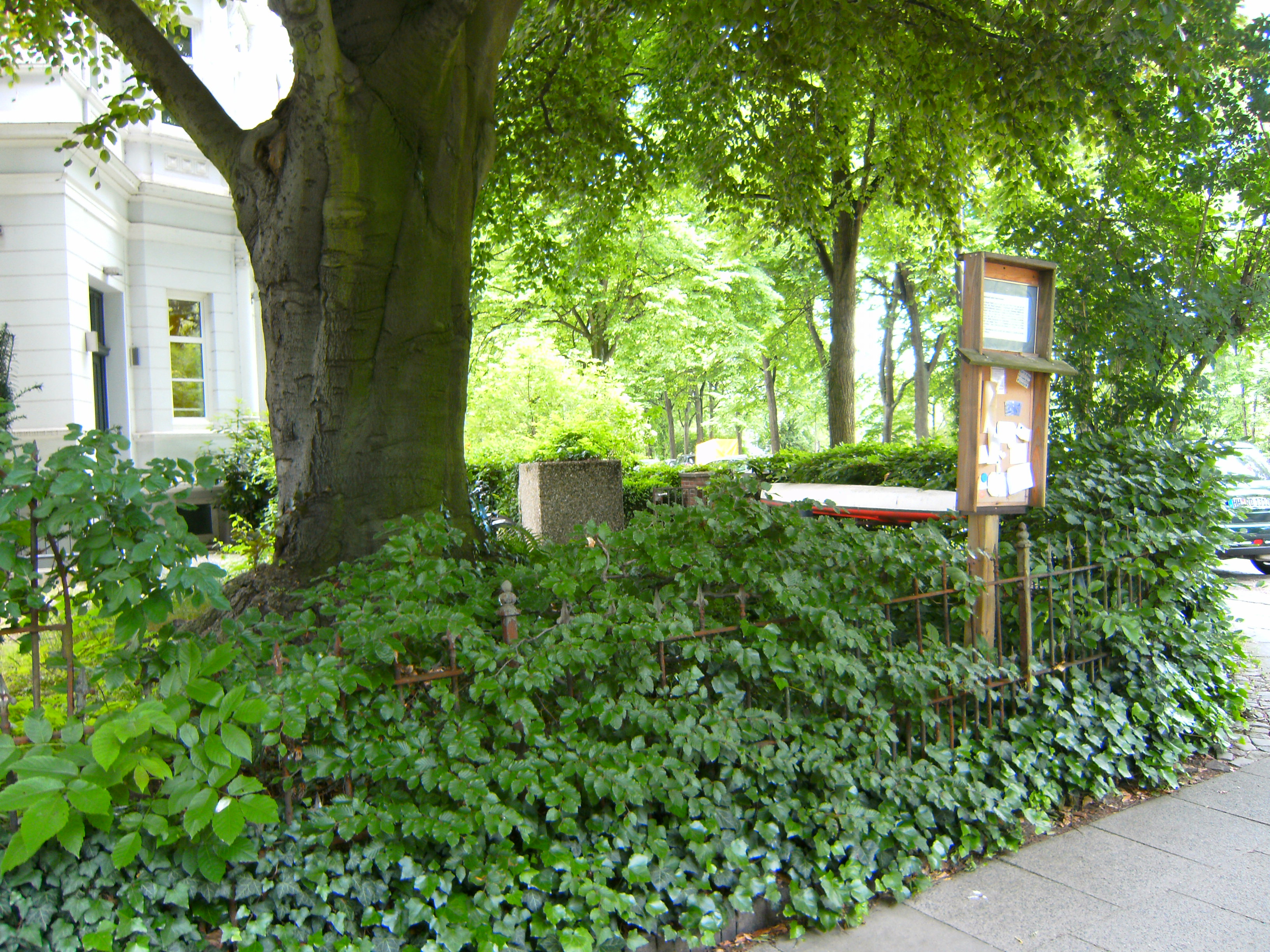 A beech tree in Hamburg near Kuhmühlenteich at Eilenau/Lessingstraße called "Maiboom'sche Liebesbuche" where secret whishes and hopes of love are posted.